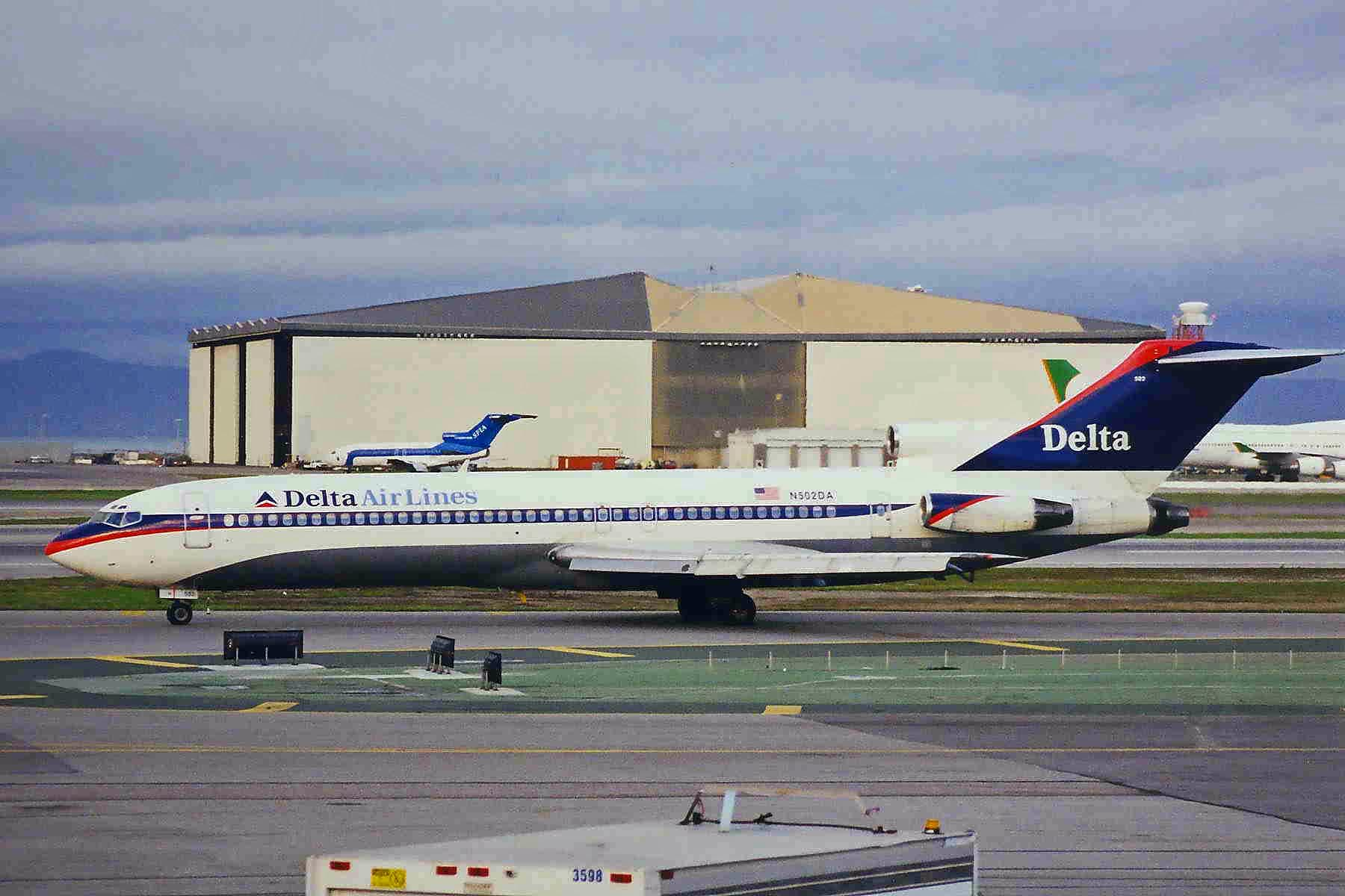 A picture of an airplane